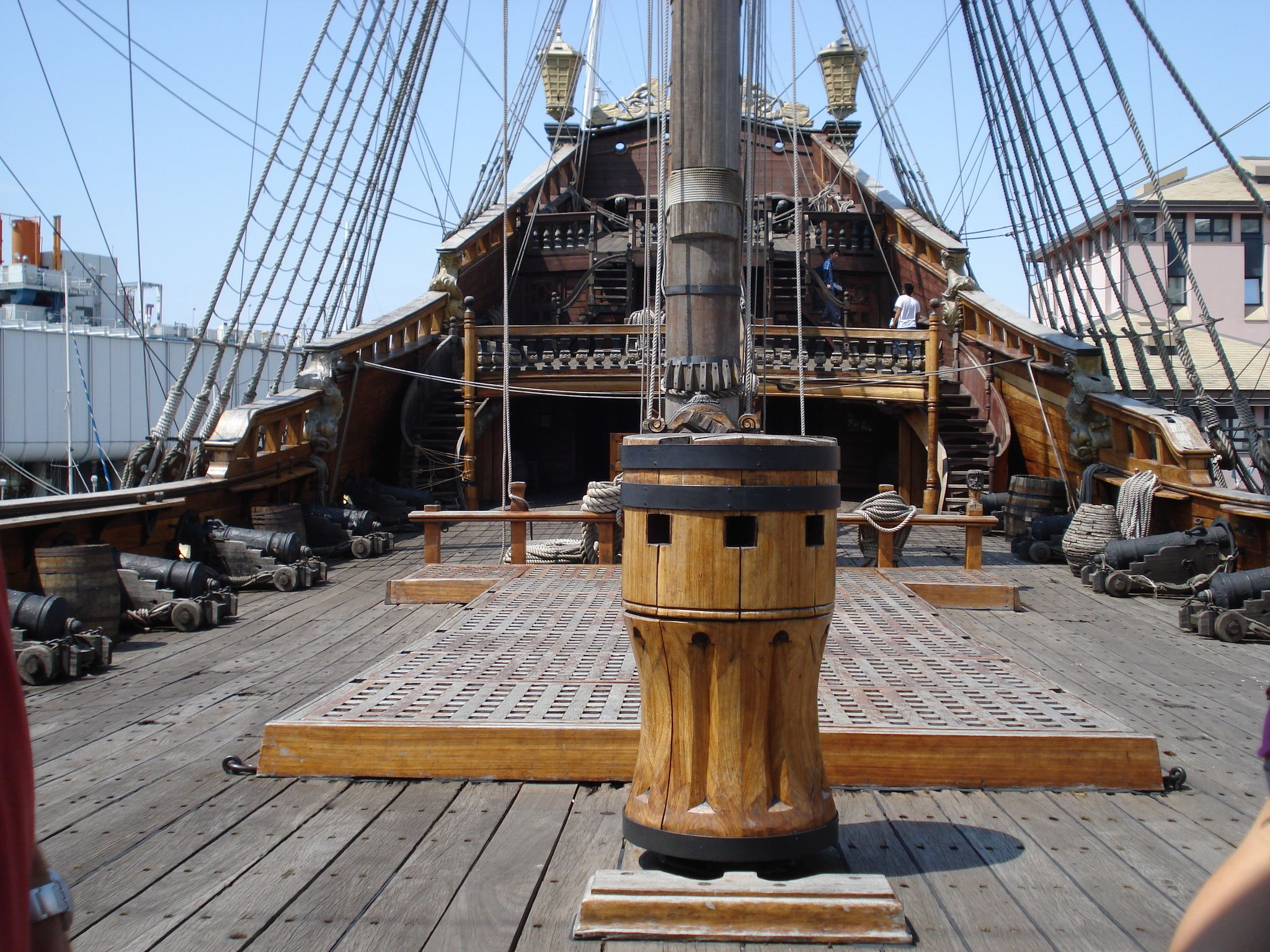 Galleon Neptune, Genoa